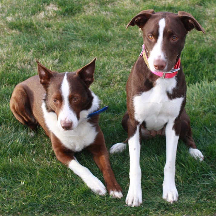 Two Red and White McNab Shepherds, Kye and Aila